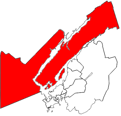 The riding of Kings Centre in relation to other electoral districts in Greater Saint John.